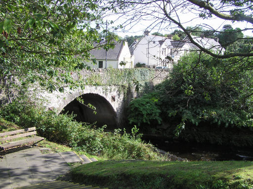 Plumbridge Co. Tyrone: The village of Plumbridge - the Glenelly River runs through it